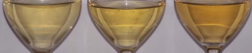 Three bottles of Pinot Gris taken April 2nd, 2007 Bottle 1.) Italian Pinot Grigio Mezzacorona 2005 Bottle 2.) Alsatian Pinot Gris Trimbach Reserve 2002 Bottle 3.) Oregon Pinot Gris Eyrie Vineyards 2005